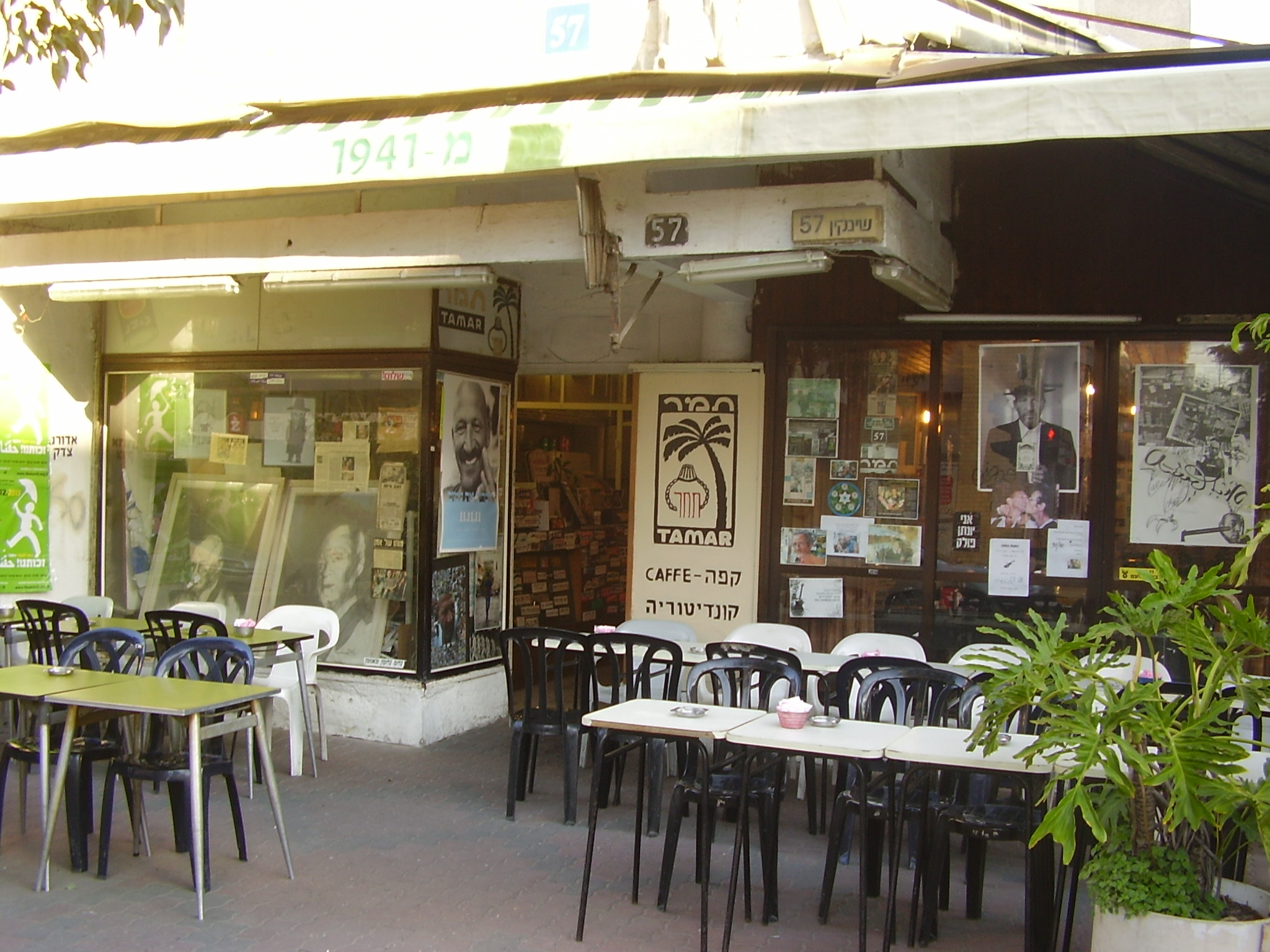 Caffe Tamar in Tel Aviv